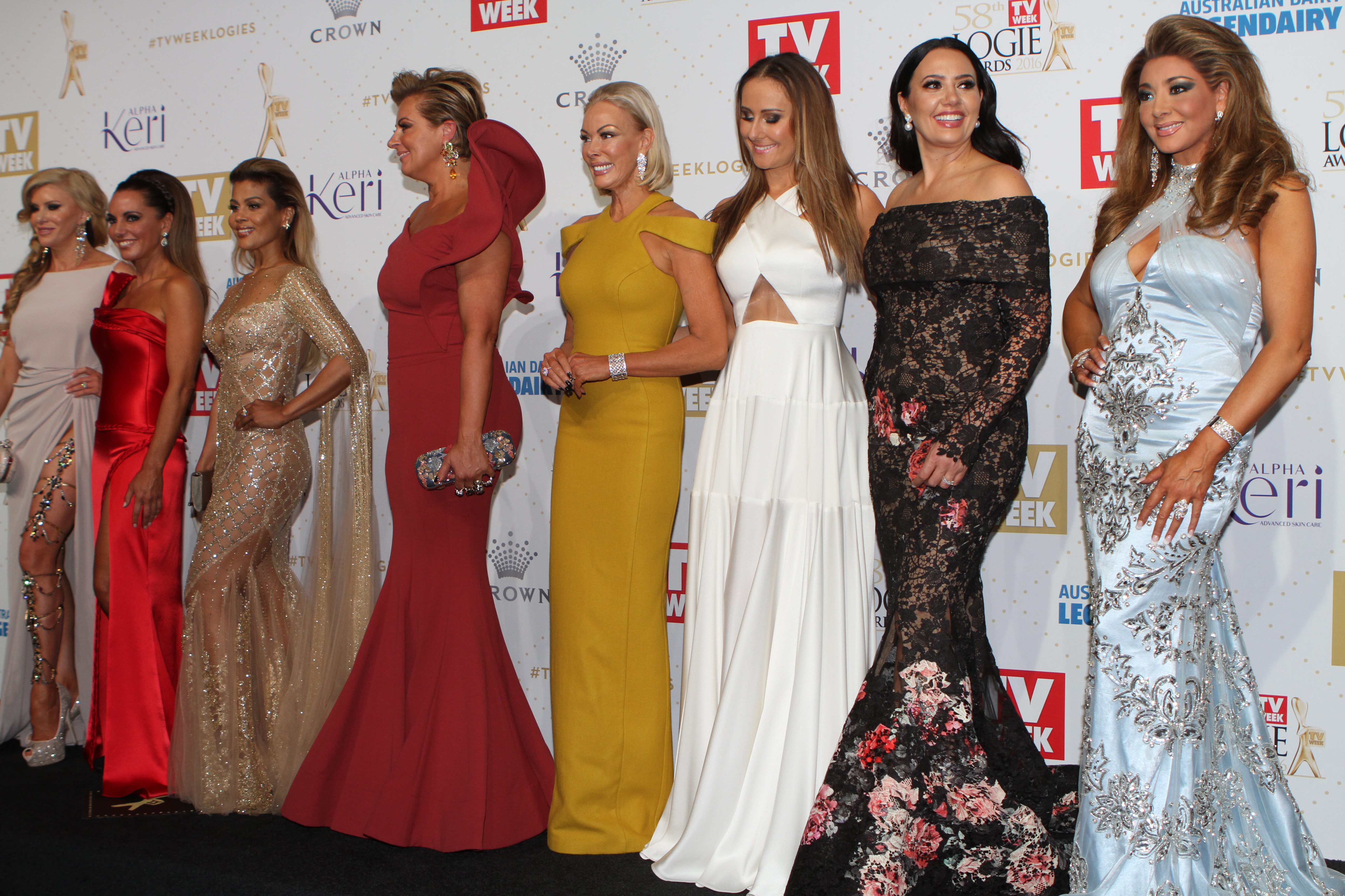 The Real Housewives Of Melbourne 2016 TV Week Logie Awards